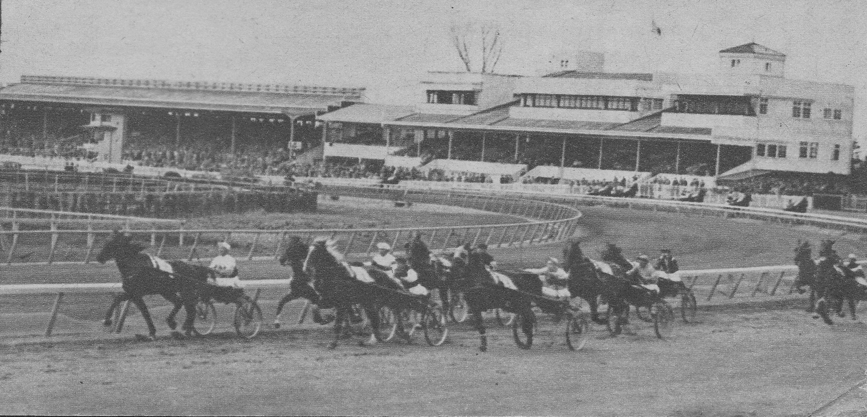 Harness racing in Japan.